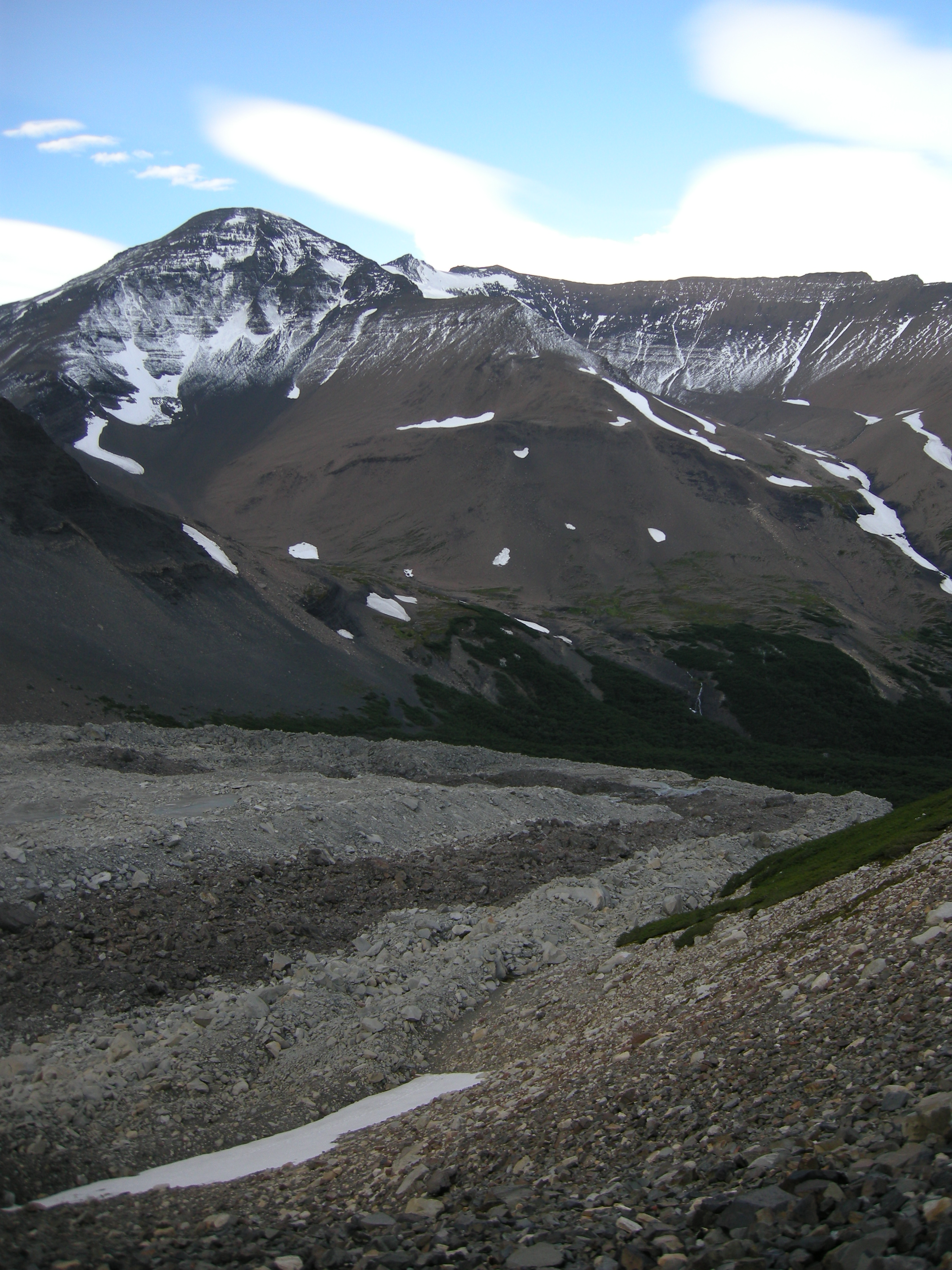 Global view of the concentric recessional moraines in the end of Valle del Silencio (Torres del Paine National Park, Chile)